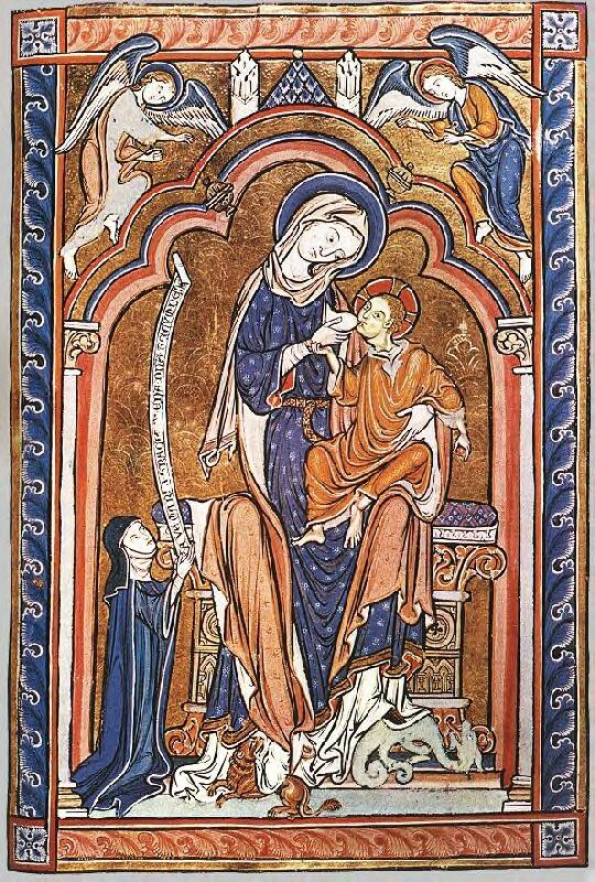 Madonna lactans, Amesbury Psalter, 13th. century